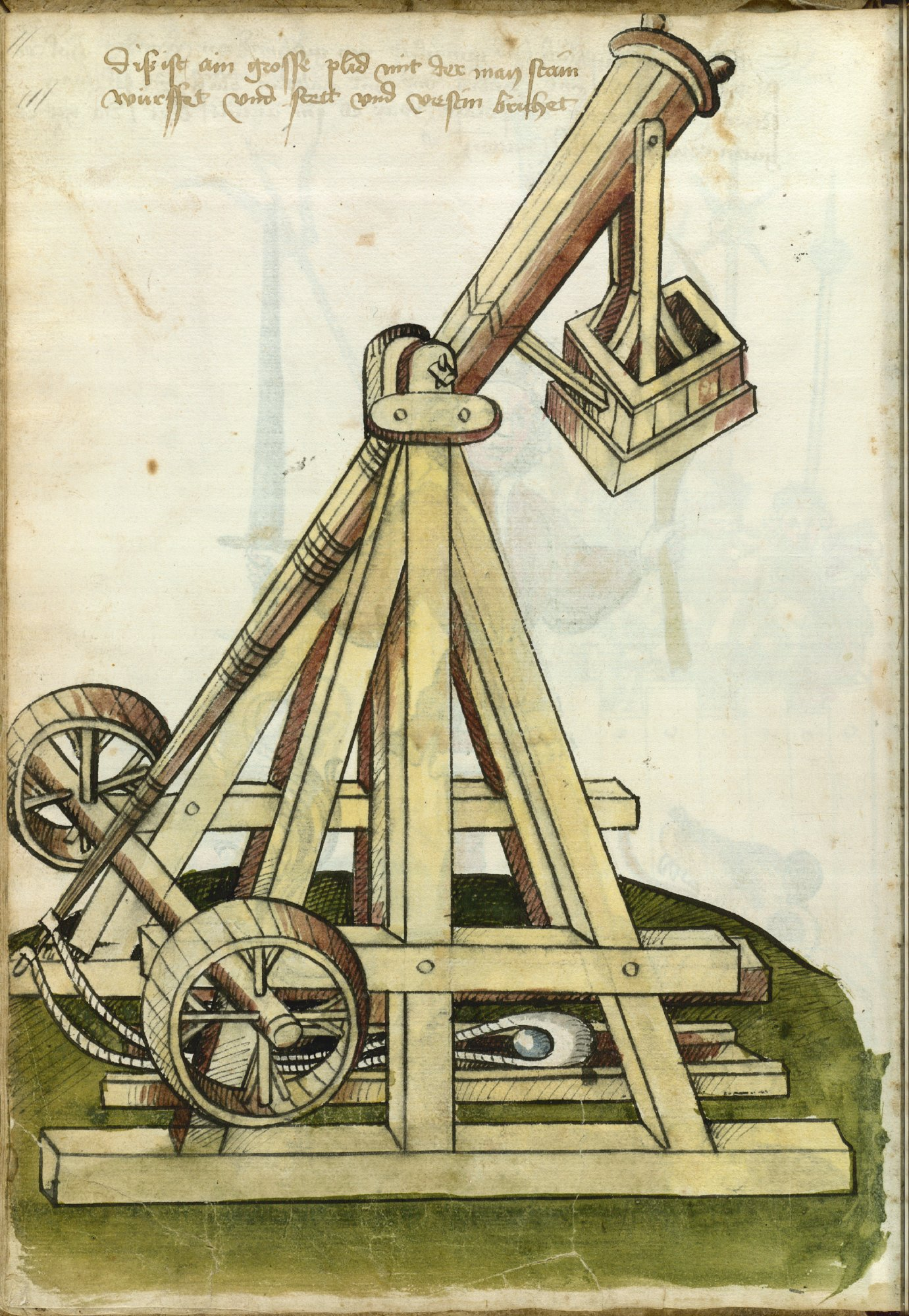 The Ms.Thott.290.2º is a fencing manual written in 1459 by Hans Talhoffer for his own personal reference and illustrated by Michel Rotwyler. Text: Diß ist ain grosse plid mit der man stain würffet und stett und vestin brichet